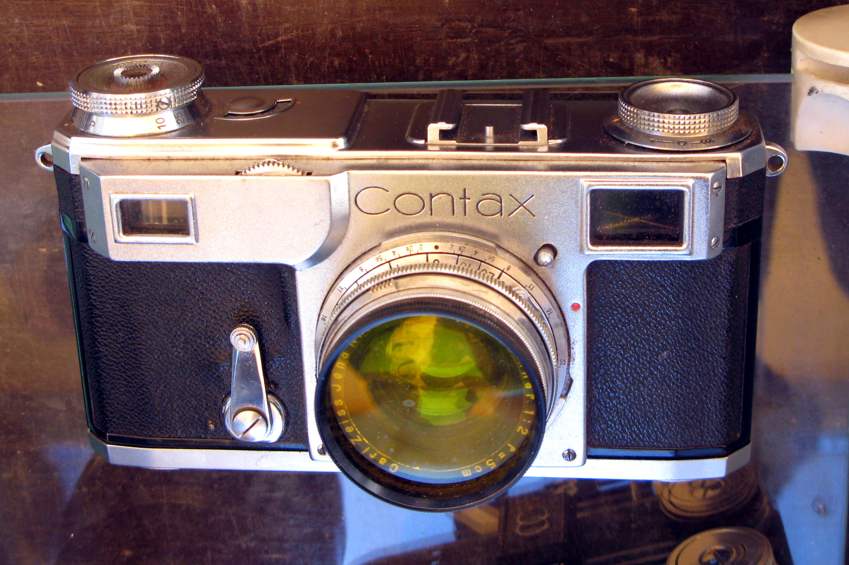 Contax II